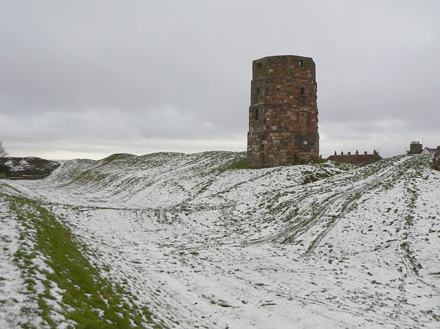 Bell tower On the northern, medieval ramparts. A bell would be sounded as an alarm if necessary. Built in 1577 to replace an earlier tower, its bell was last rung in 1683. Listed grade I along with the rest of the town's fortifications.